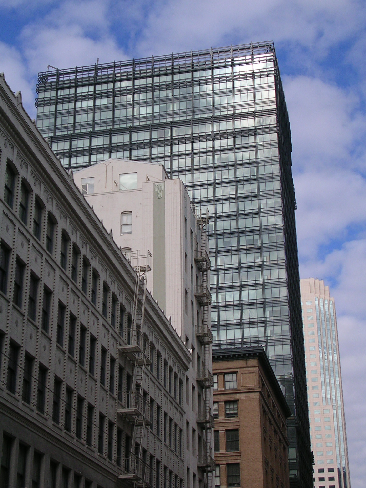 The JP MorganChase Building (420 feet, 120 m, 31 floors) as viewed from Mission Street. San Francisco